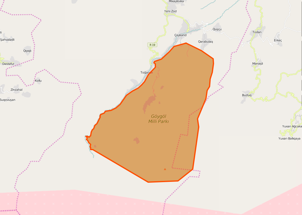 Göygöl National Park